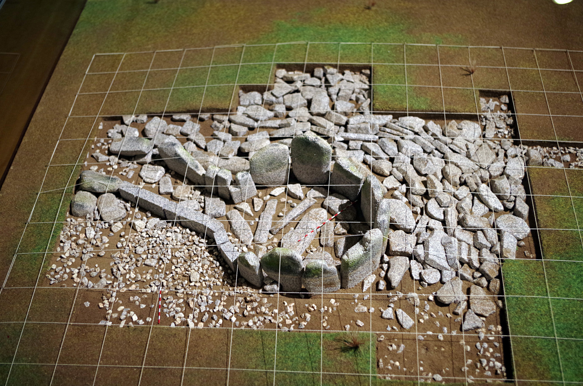 Dolmen of "Crosses Meadow" model in Ávila Museum (Casa de los Deanes building) (Ávila, Spain).